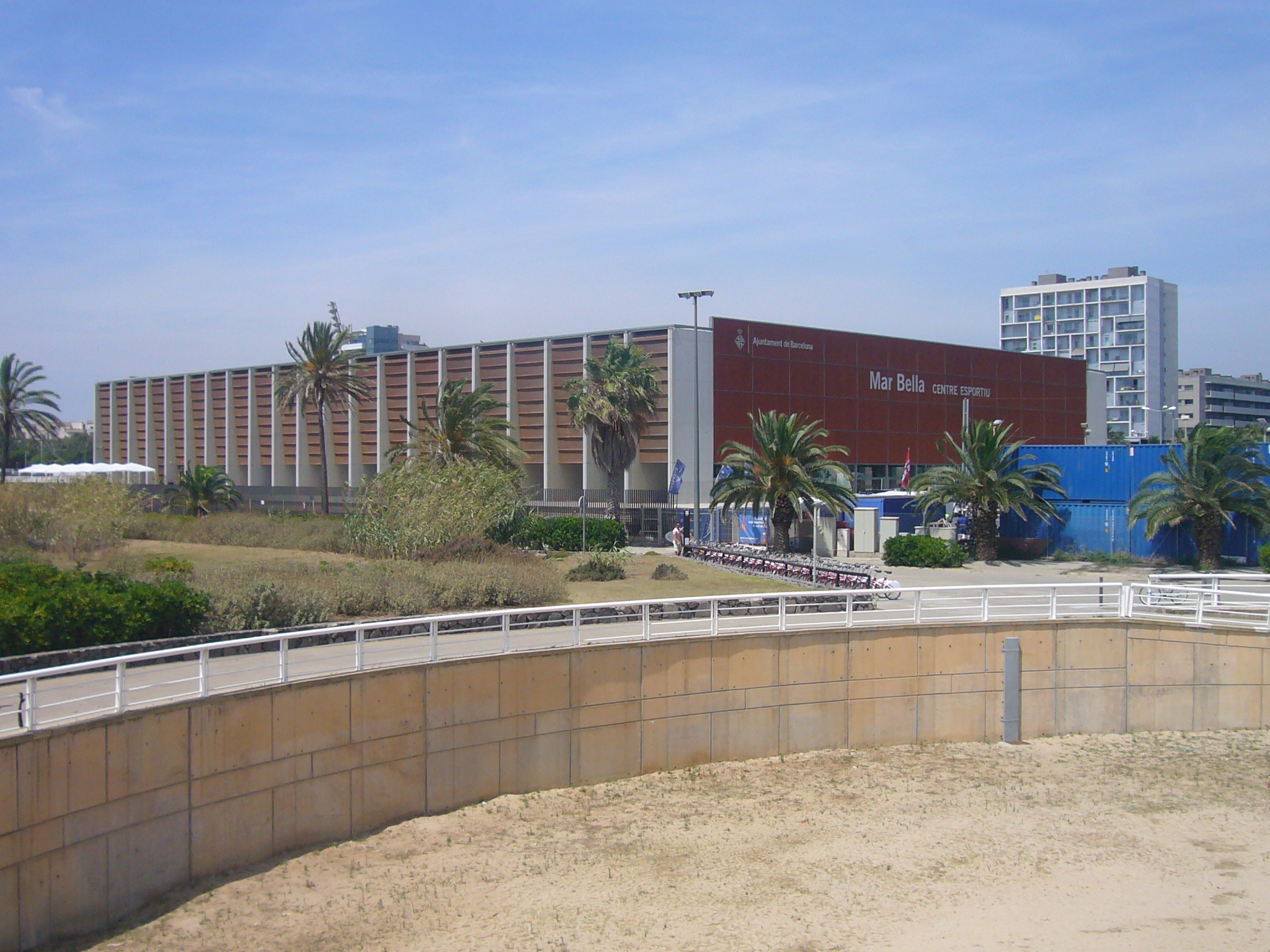 Mar Bella Centre Esportiu (Barcelona)